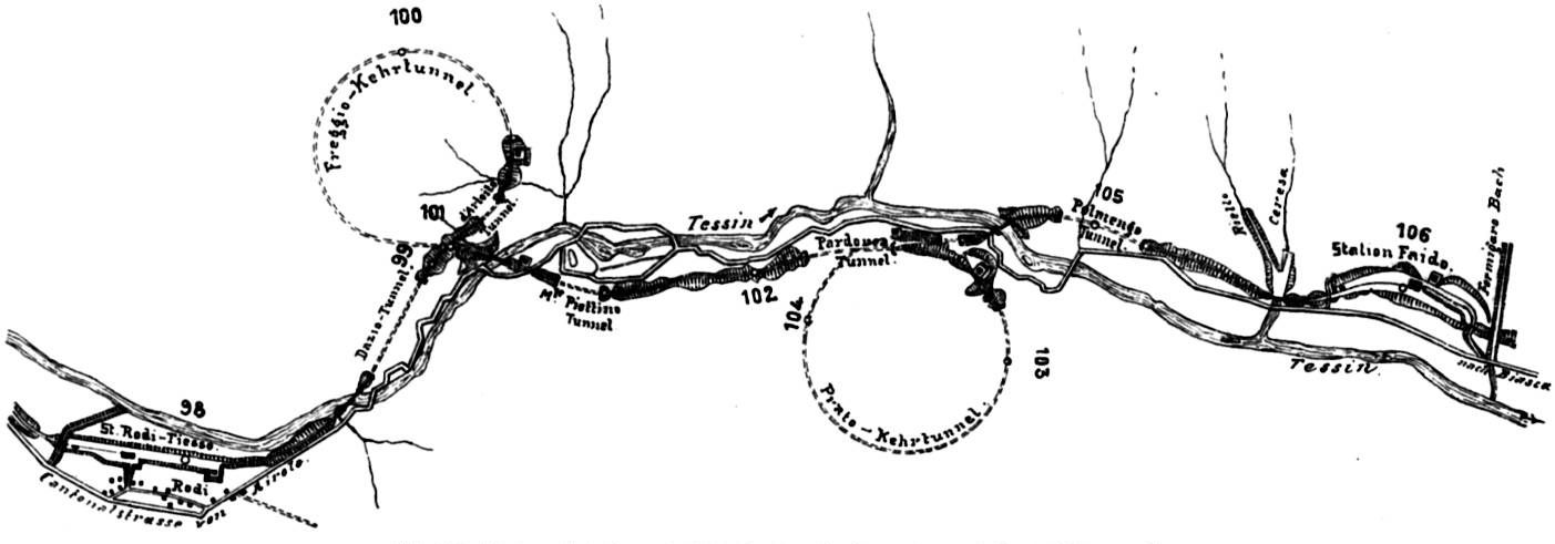 Outline of the Freggio and Prato spiral tunnels between the Rodi-Fiesso and Faido stations on the southern ramp to the Gotthard tunnel. Going down the southern ramp of the Gotthardbahn after the Gotthard Tunnel the line passes the station of Rodi-Fiesso in a 90° left turn, crosses to the left side of the Ticino River (Tessin) valley. There it passes the 270° Freggio Spiral Tunnel in a left turn into the left side of the valley. Leaving the tunnel the line crosses again the Ticino River valley to proceed a kilometer on the right valley side before moving through the 360° Prato Spiral Tunnel in a right turn into the right valley side. Exiting the tunnel the line crosses again to the left valley side bridging smaller streams before passing through the Faido station and continuing the decent down the southern ramp. From Rodi-Fiesso at 945 m to Faido at 758 m the line drops 187 m along 8.2 km of tracks with 26‰ being the sharpest decline in this section. The shortest beeline distance between the stations is approximately 4km. I.e. the average decline was reduced by approximately 50%, reducing the power needed by the locomotives for the climb. The elevation data and inclination data were all taken from the figure Profile of the Gotthardbahn.